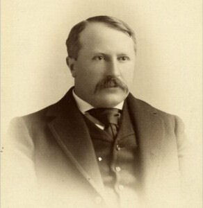 Photograph of Israel Charles White, Professor at University of West Virginia Geology Department and first State Geologist for west Virginia.